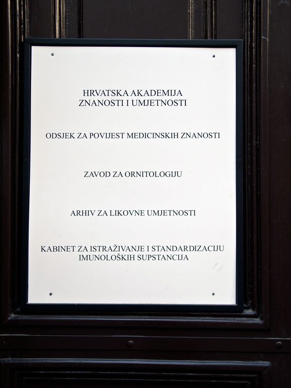 Institute for Ornithology Academy in Zagreb.